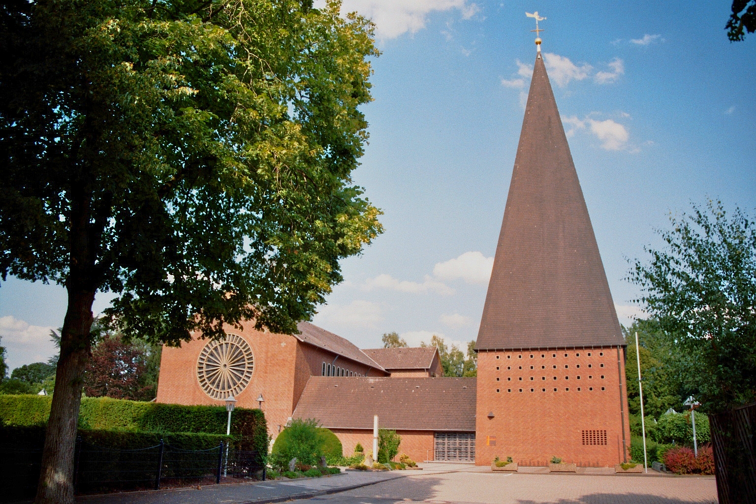 Roman Catholic St.-Michael-Kirche (Saint Michael Church) in Ibbenbüren-Bockraden, Kreis Steinfurt, North Rhine-Westphalia, Germany.